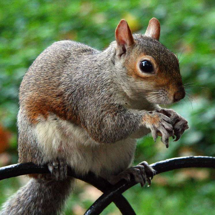 Picture of a Grey Squirrel taken in St James's Park, London on 19 September 2006. Released as GFDL by Ian Fraser.